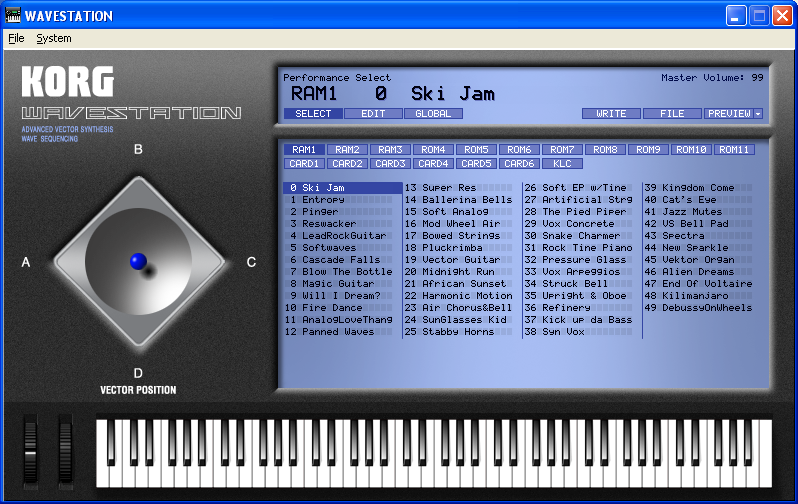 Screen capture of software Korg Legacy Collection Wavestation v.1.6.5 licensed copy running in my computer in my residence.